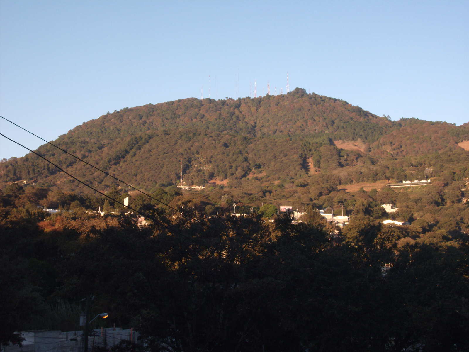 Alux mountain, from colonia Nueva Vida, Mixco, Guatemala